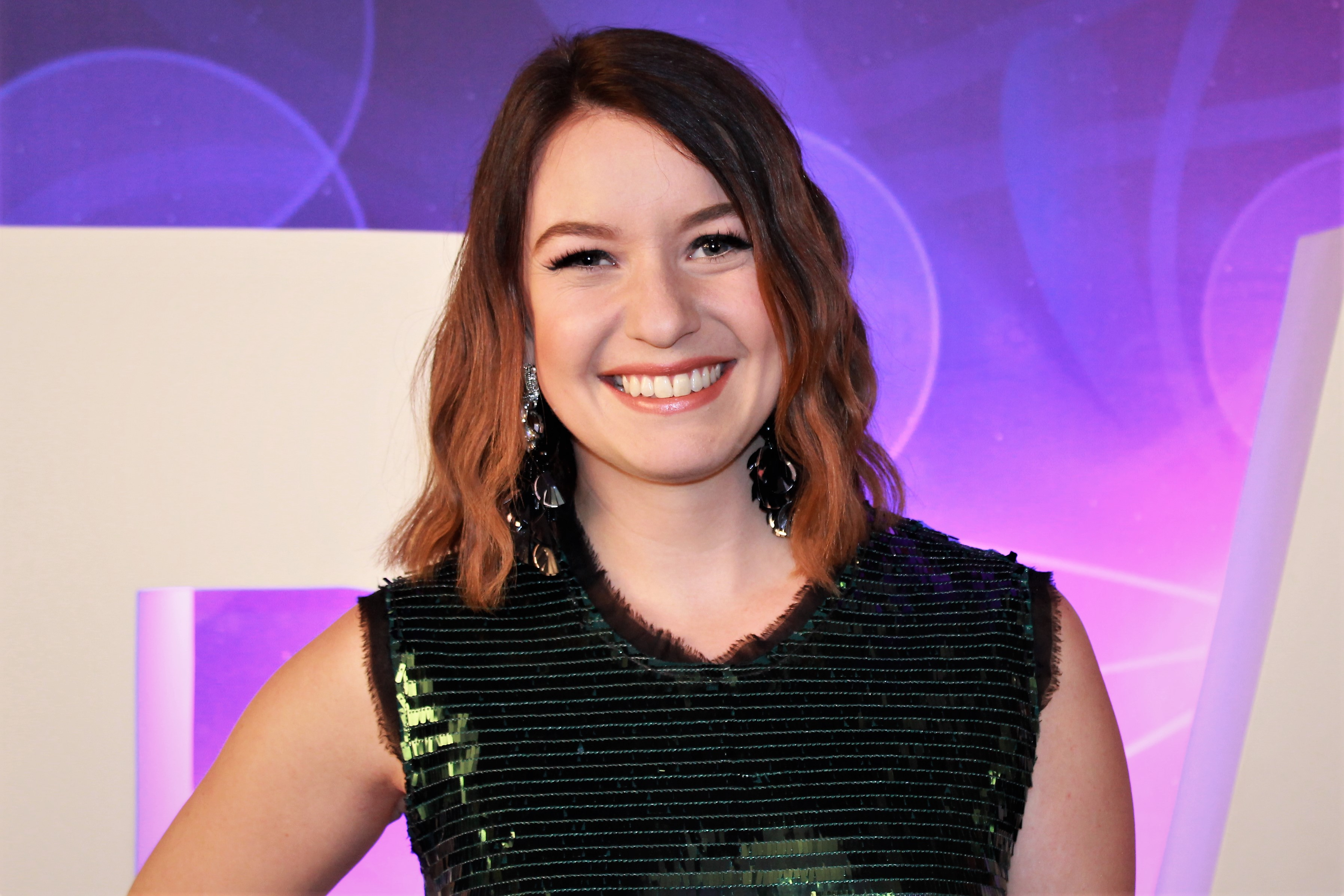 The female host of A Dal 2018: Kriszta Rátonyi